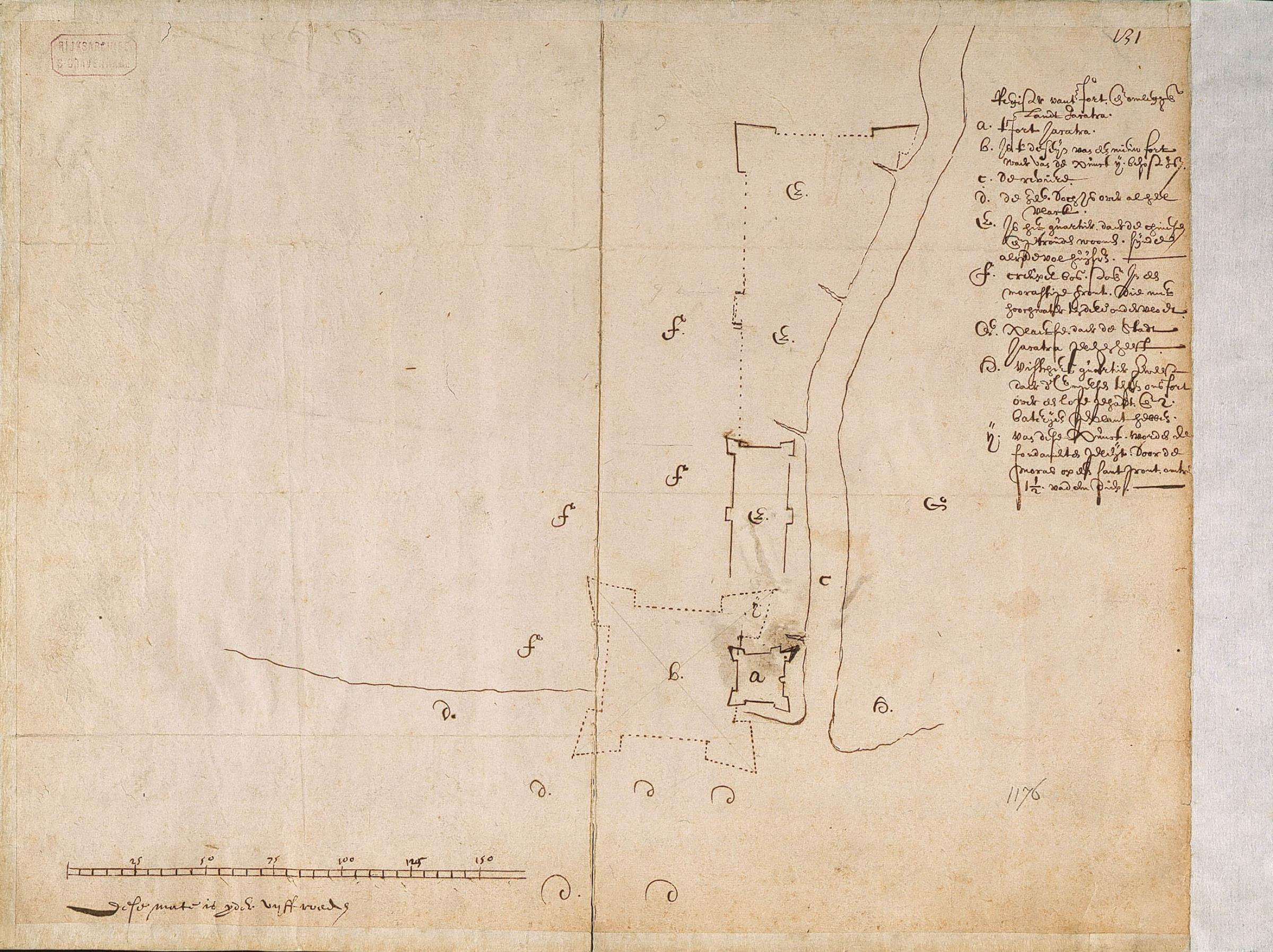 Map of Batavia with a design for the extension of 'Fortress Jacatra', commonly known as 'Batavia Castle'. Translation of the description on the map: Index of the fortress and the surrounding land (known as) Jacatra. A. the Fortress Jacatra. B. is the design of a new fortress; outlined with point I. C. the river. D. the sea, which is overall very flat. (a joke of the map maker) E. is the quarter where the Chinese and the wedded (men) live, which is already full with houses. F. scrubland, located in marshy ground that becomes partially flooded at high tides. G. location where the town of Jacatra used to be. H. fisherman's quarter, where the English, opposite to our fortress, used to have a lodge and where they installed a battery (of guns). I. the foundations (of the new fortress) will be laid down at this point; through the marshland on sandy grounds, at a depth of approximately 1½ fathom. Description beneath the scale bar (bottom left): This unit is five rods each. A strip has been pasted down the right-hand edge. 1176, the number of the chart, is written in pencil. In an addition to the Leupe Catalogue, reference is made to a catalogue of an exhibition in Amsterdam held in 1919. Notes on the reverse:No. 24 / 130 / 602 x / Portef. I Uit de Memorien en Beschryvingen van algemeen Batavia 1619 / uit overgekomen stukken Q II 1620 brief 7 oct 1619 de Jonge IV pagina 1 / schaal 25 R op 1 duim rond 1 : 3600 (all in pencil, in a modern hand).